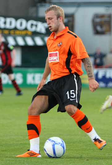 Johnny Russell from Bohemians V Dundee United (30 of 34)